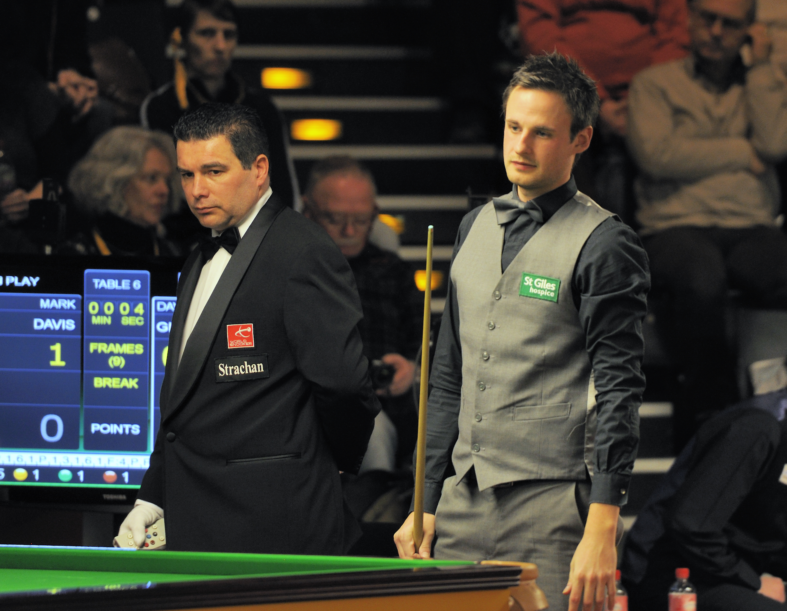 Picture taken in Berlin during the Snooker German Masters in 2014. Ben Williams, David Gilbert.